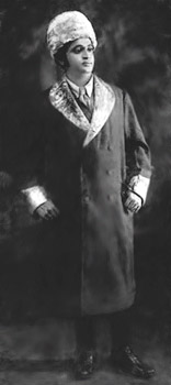 Dinanath Mangeshkar (Devanagari: दीनानाथ मंगेशकर) (December 29, 1900-April 24, 1942)